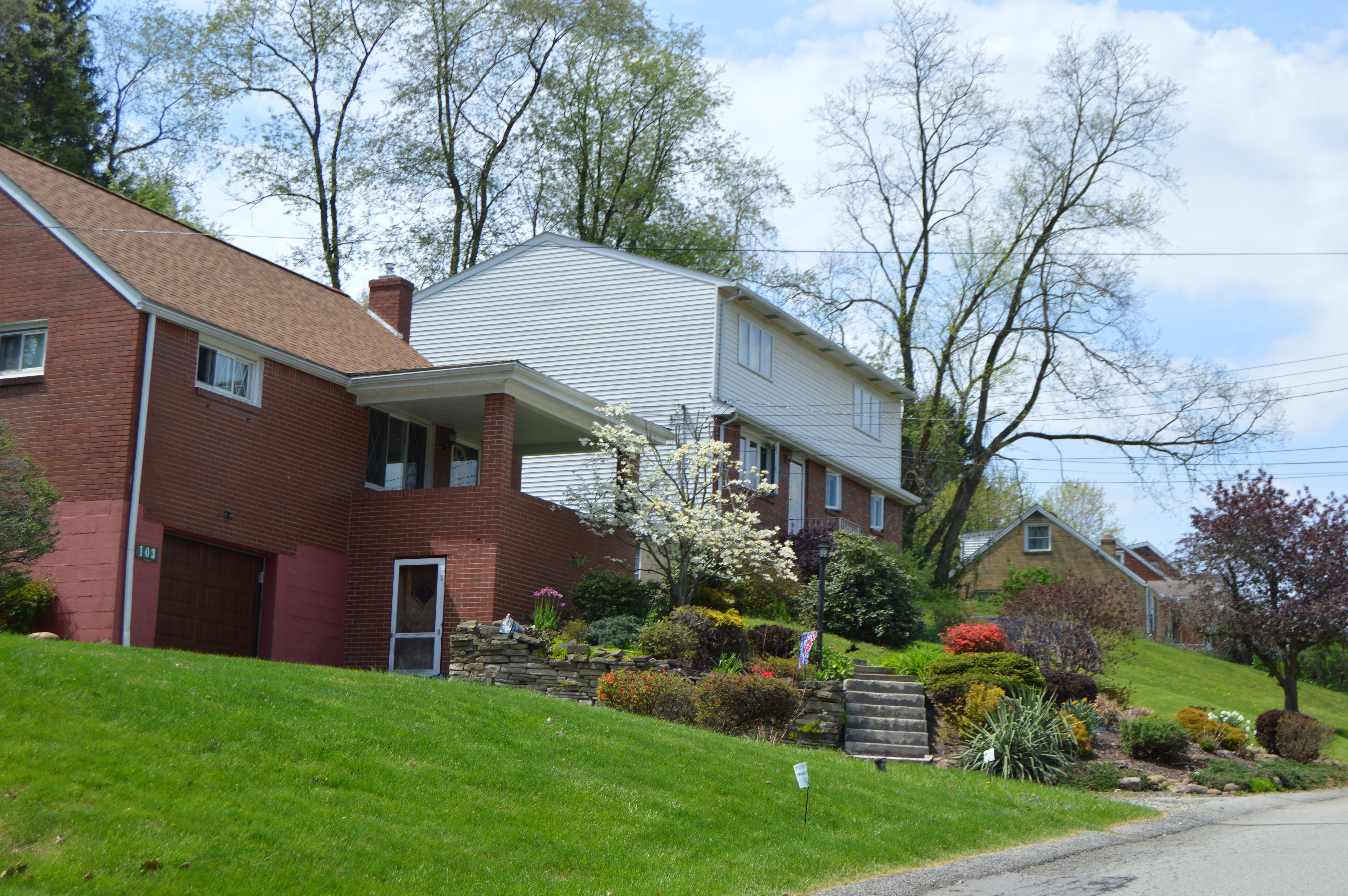 Houses on the western side of Oliver Drive north of Pennsylvania Route 48 in White Oak, Pennsylvania, United States.